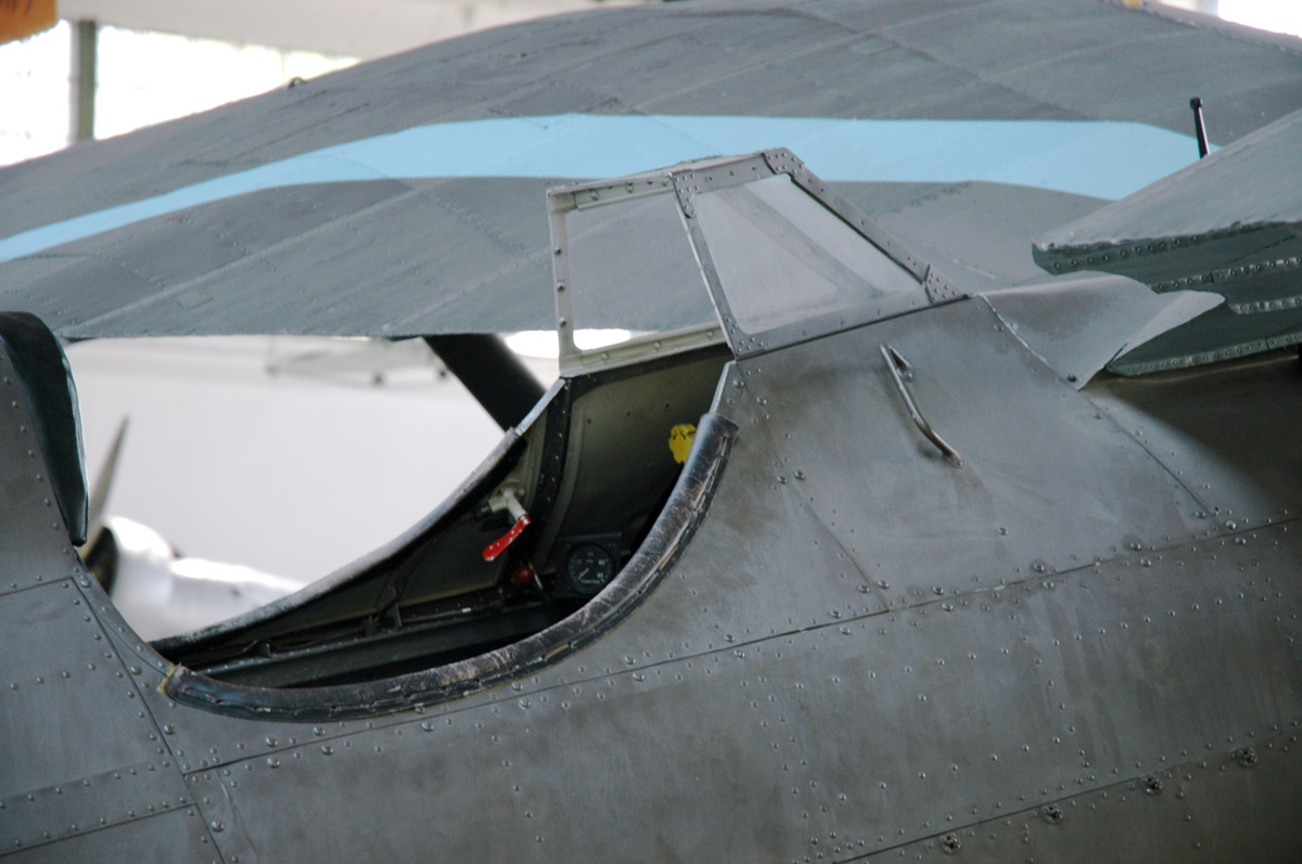 The open cockpit of the PZL P.11c fighter (Polish Aviation Museum, Cracow)